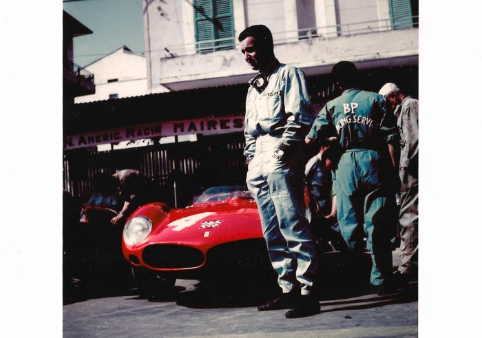 1960 Ferrari 250 Testa Rossa TRI/60 s/n 0780TR at Circuito di Pescara on 16 August 1961. Driver was Lorenzo Bandini. Co-driver was Giorgio Scarlatti. They won the game.[1]